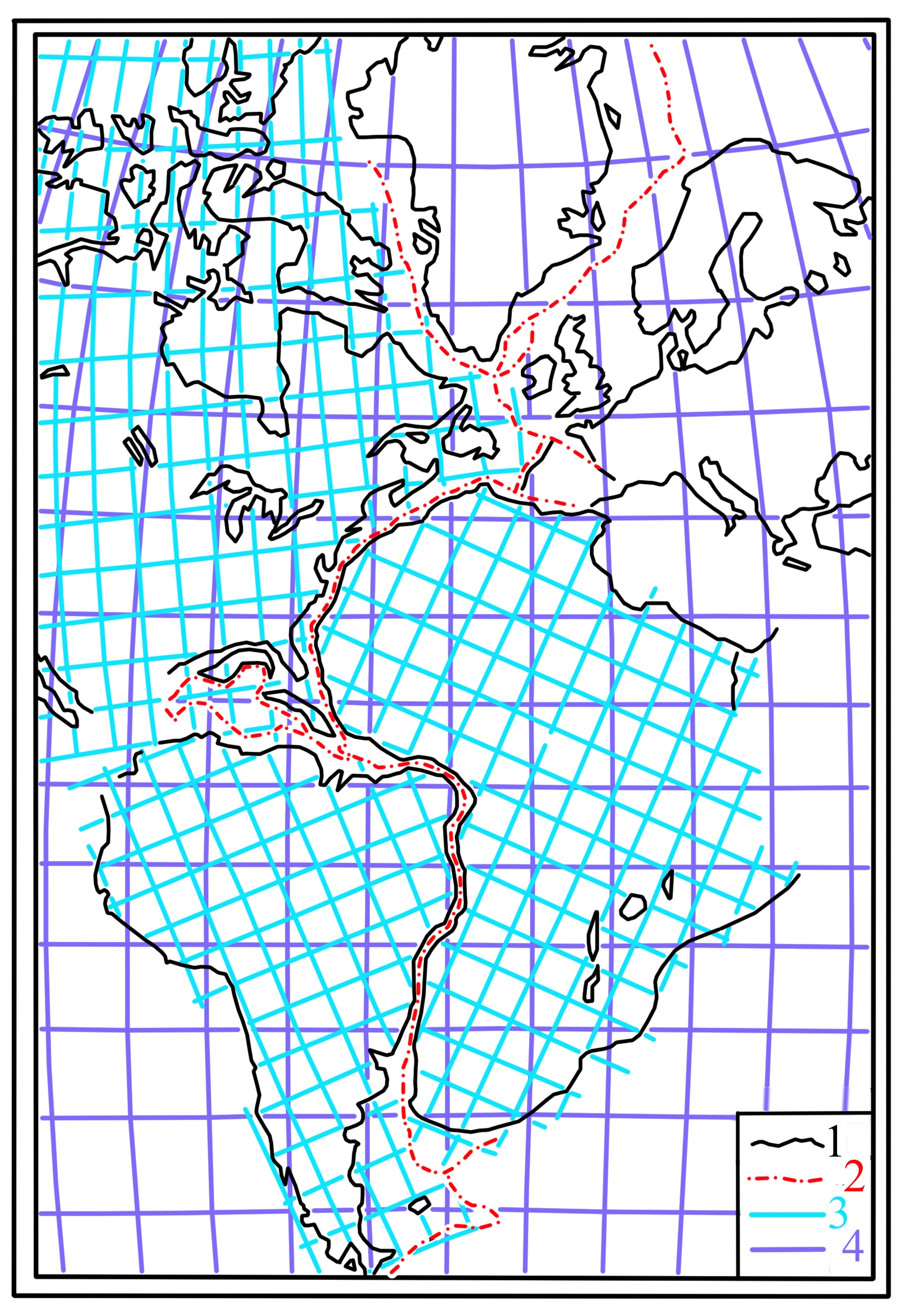 Boris Choubert's fit of America, Greenland, Europe and Africa continents (1935).